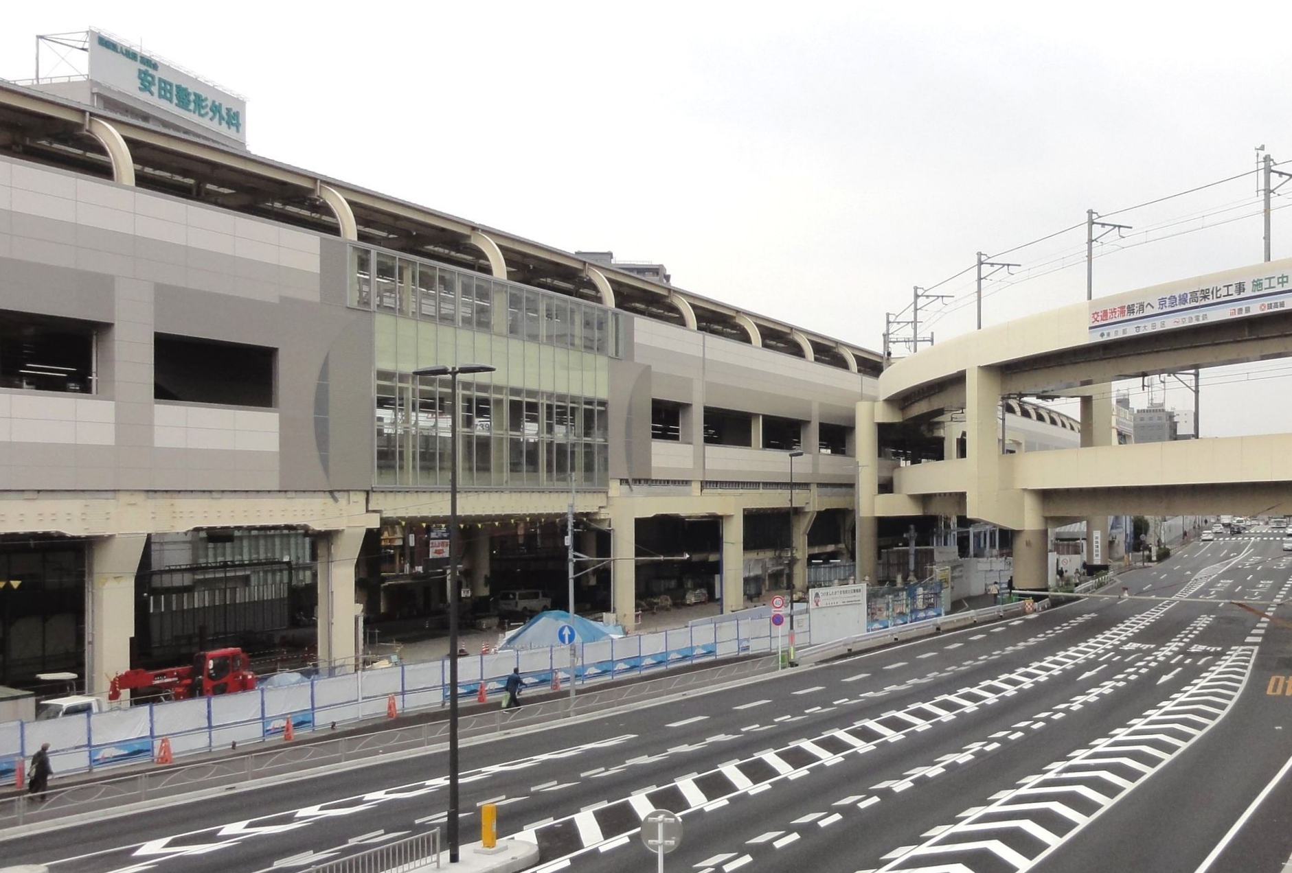 Keikyu Kamata Station, with the Keikyu Airport Line branching off to the right